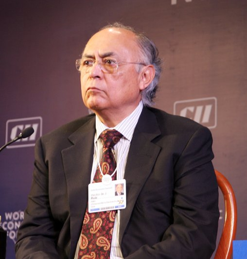 Hector Ruiz, assumed to be at the India Economic Summit 2007 since this photo belongs to that set (see source page). This is a derivative work; image has been cropped in order to make better use of article space.